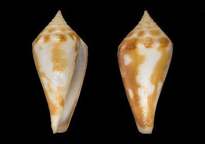 Profundiconus limpalaeri Tenorio & Monnier, 2016 ; family Conidae; the Philippines